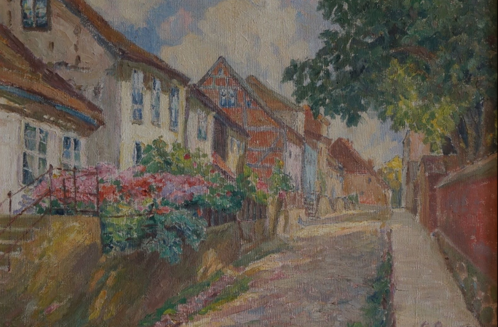 GERTRUD BERGER 1876 - 1950 STRASSENANSICH T - STRALSUND GREIFSWALD NEUBRANDENBURG - guess 1910